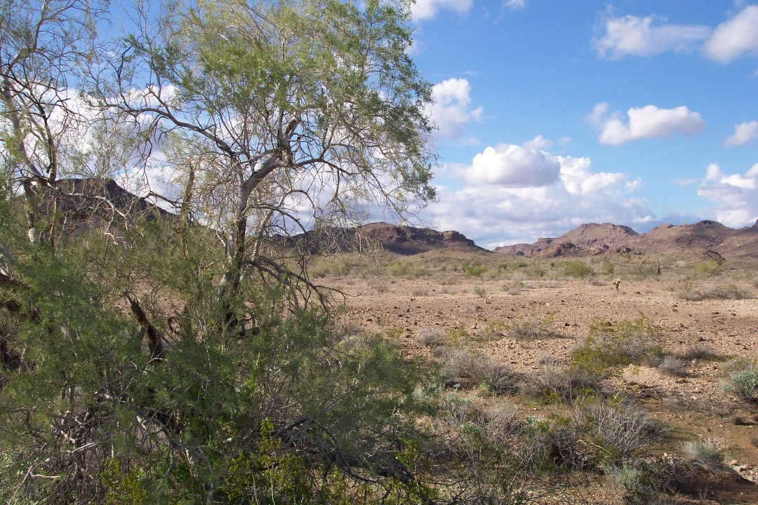 The Sonoran Desert near Yuma, Arizona in 2005.